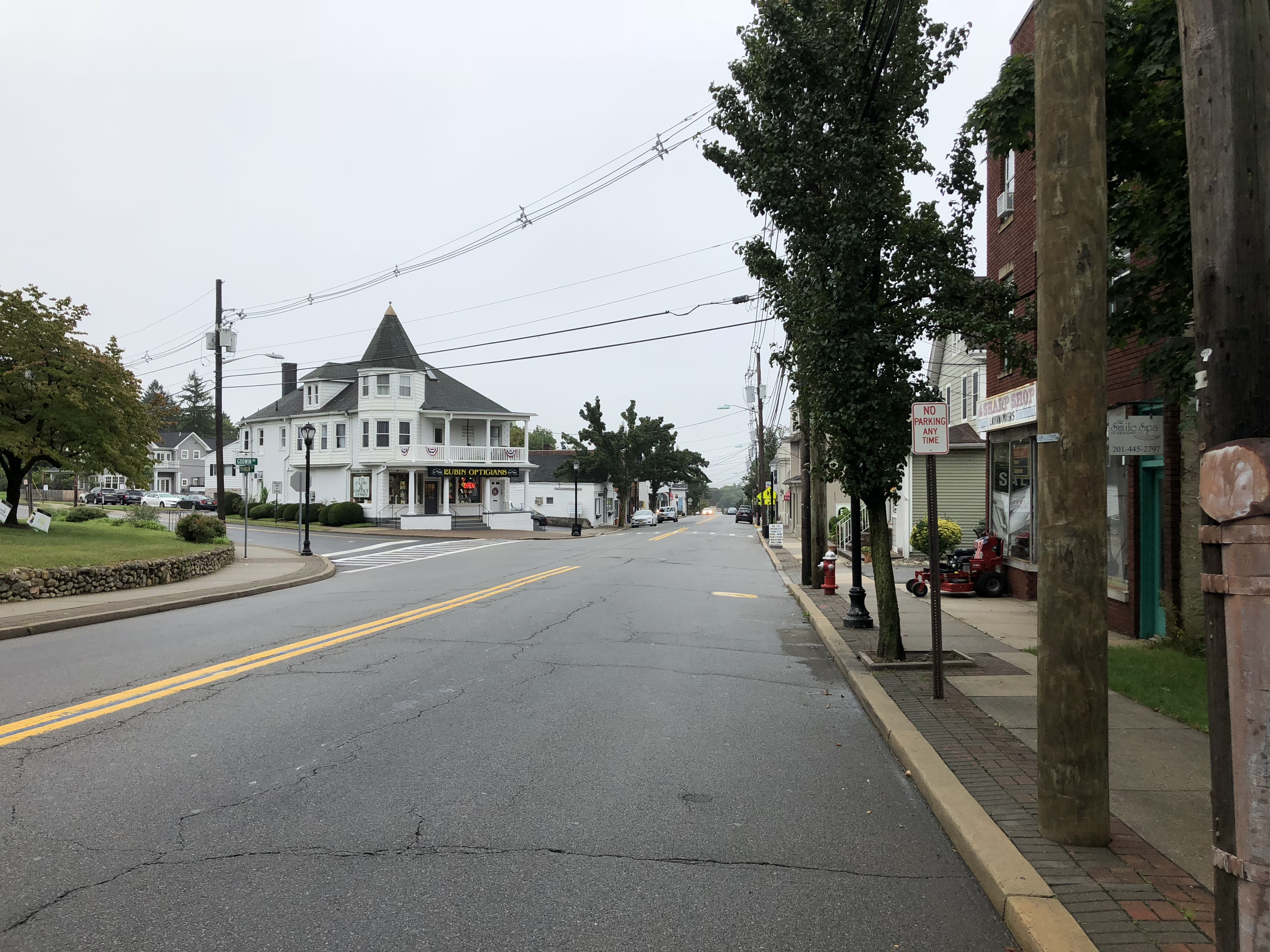 View east along Bergen County Route 84 (Godwin Avenue) at Franklin Avenue in Midland Park, Bergen County, New Jersey